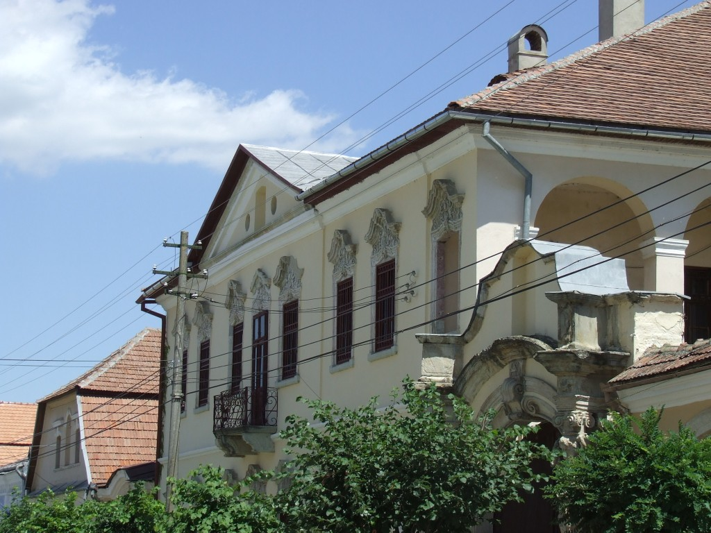 The History Museum in Gherla, Cluj County, Romania